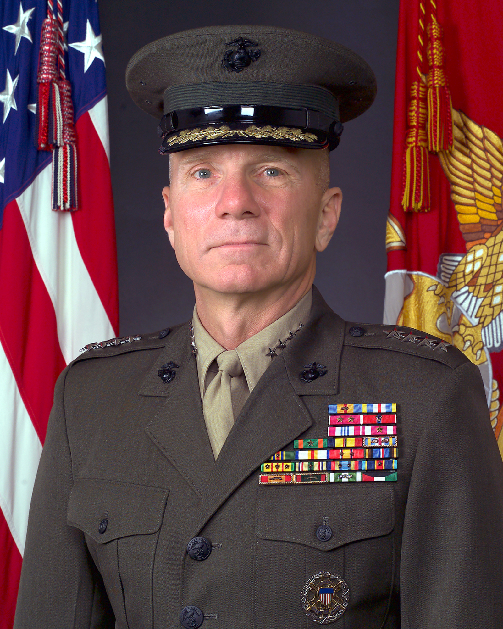 Michael W. Hagee, former United States Marine Corps commandant.